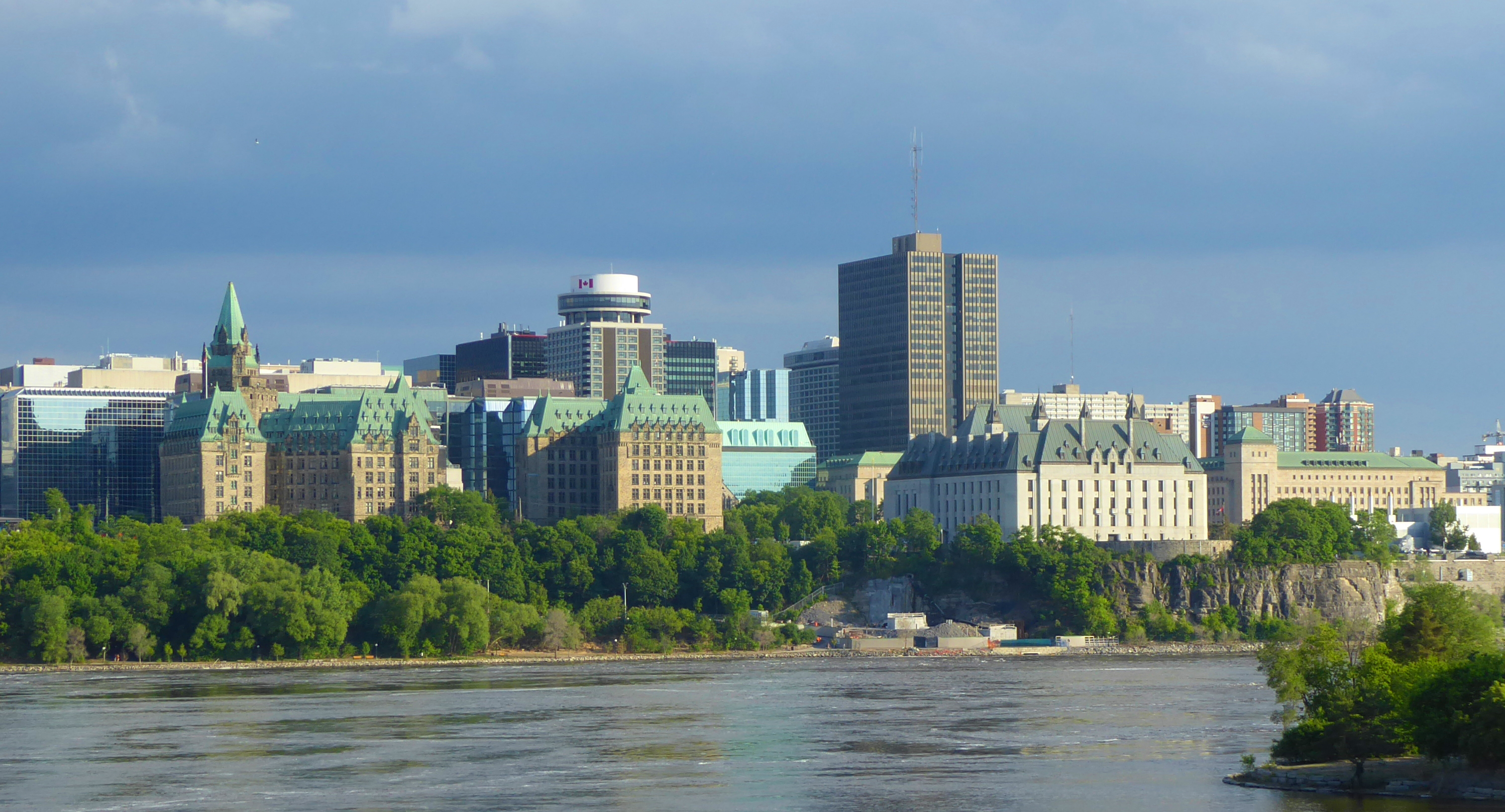 Ottawa downtown just west of Parliament Hill.